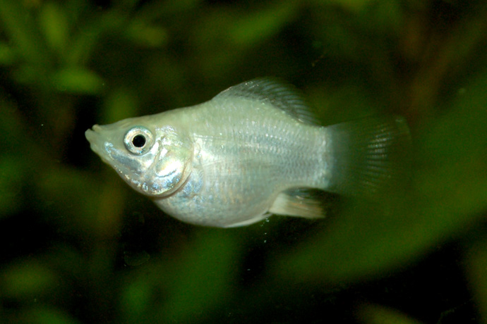 Molly "balloon" female